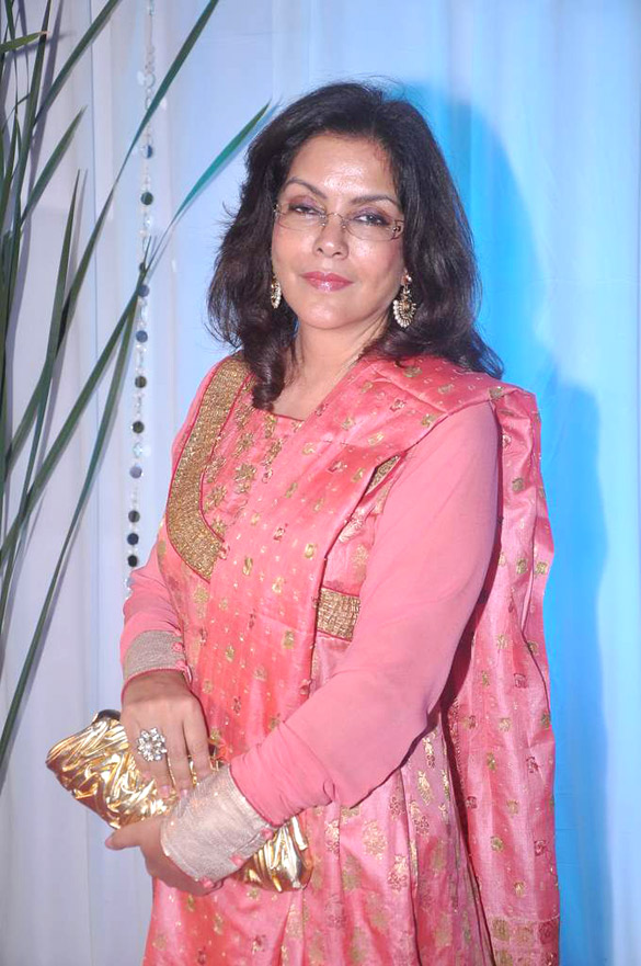 Zeenat Aman at Esha Deol's wedding reception